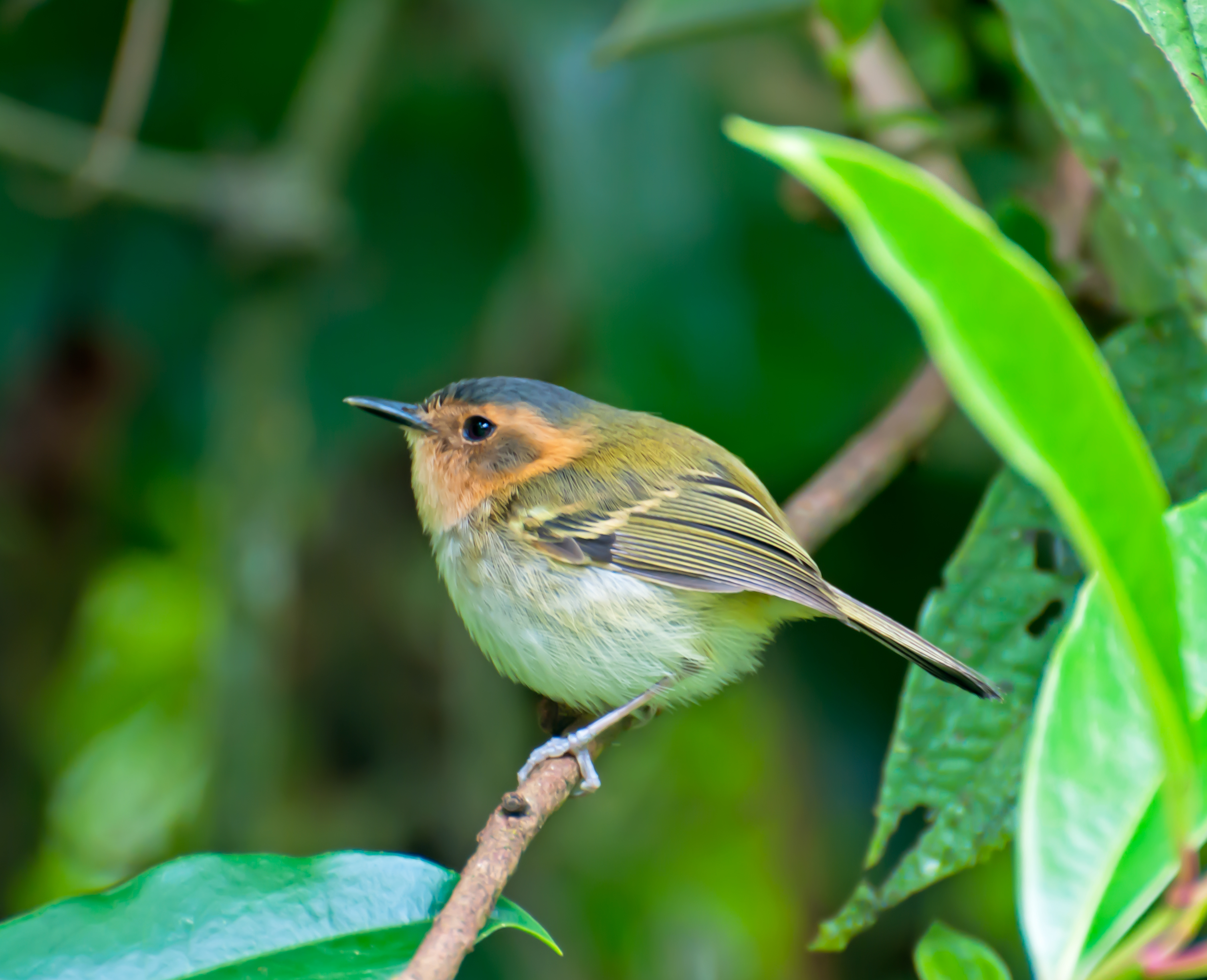 An Ochre-faced Tody-flycatcher in Núcleo Santa Virgínia, São Luis do Paraitinga, São Paulo, Brazil.